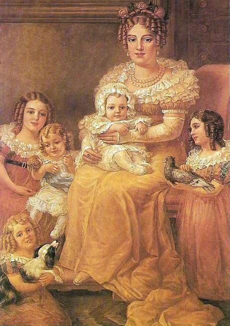 Portrait of Leopoldine of Habsburg with her children